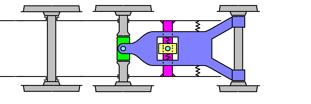 Scheme of Krauss-Helmholtz bogie